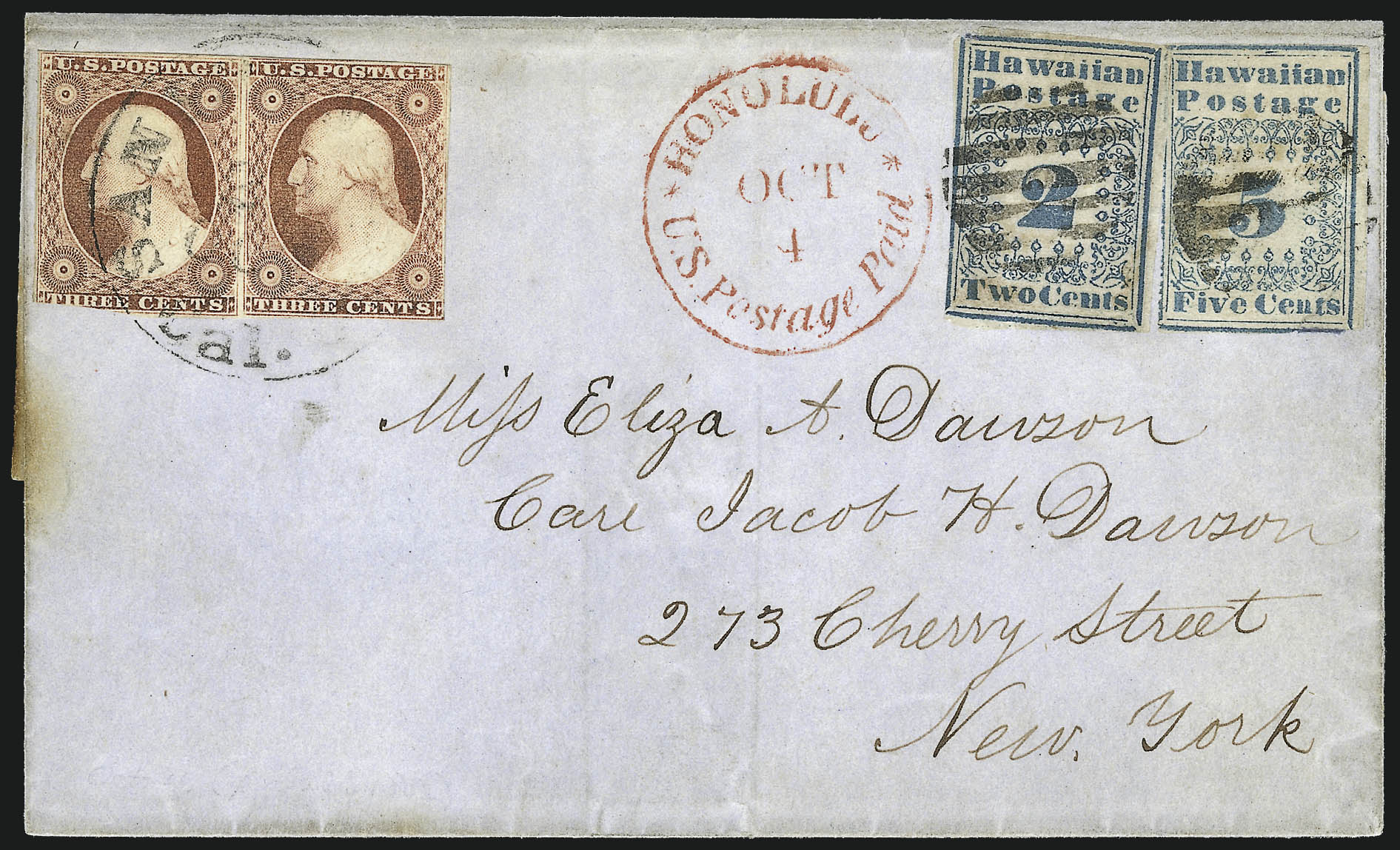 The Dawson Cover is the rarest and most important cover in Hawaiian postal history. The envelope is the only known cover bearing the Hawaiian 2c value "Missionary" stamp. It is the only cover with two different denominations from the "Missionary" stamp series.